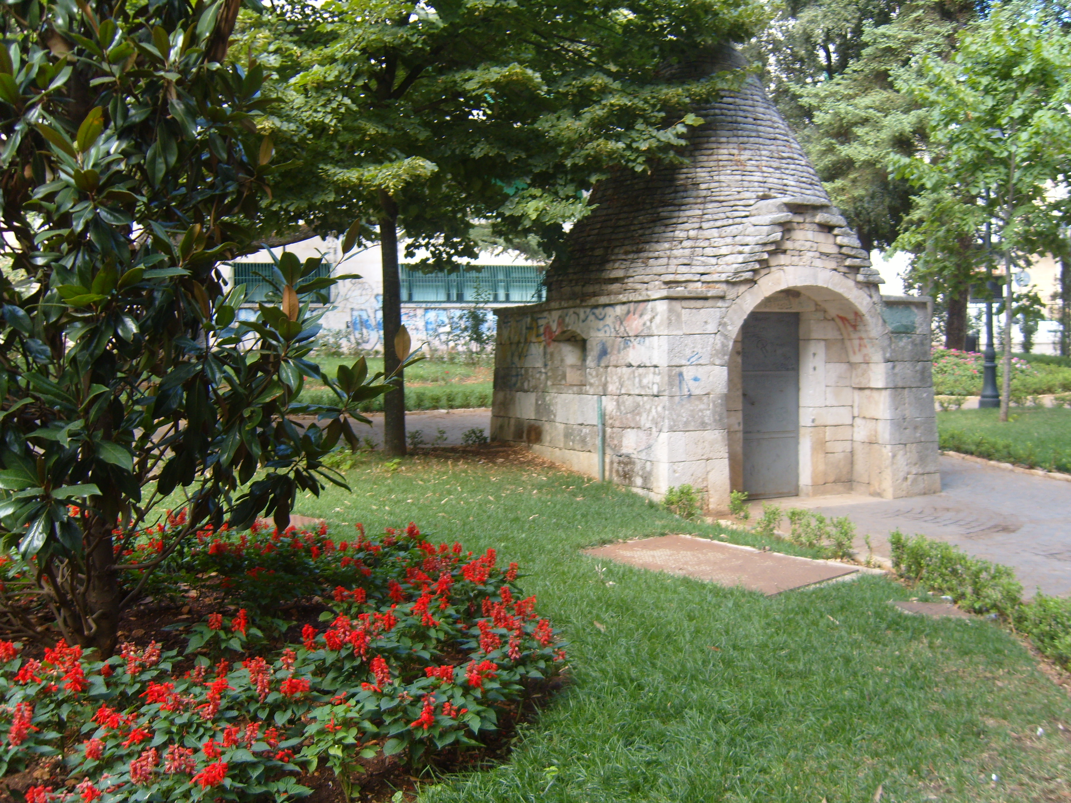 Urban park in Martina Franca, Province of Taranto, Italy